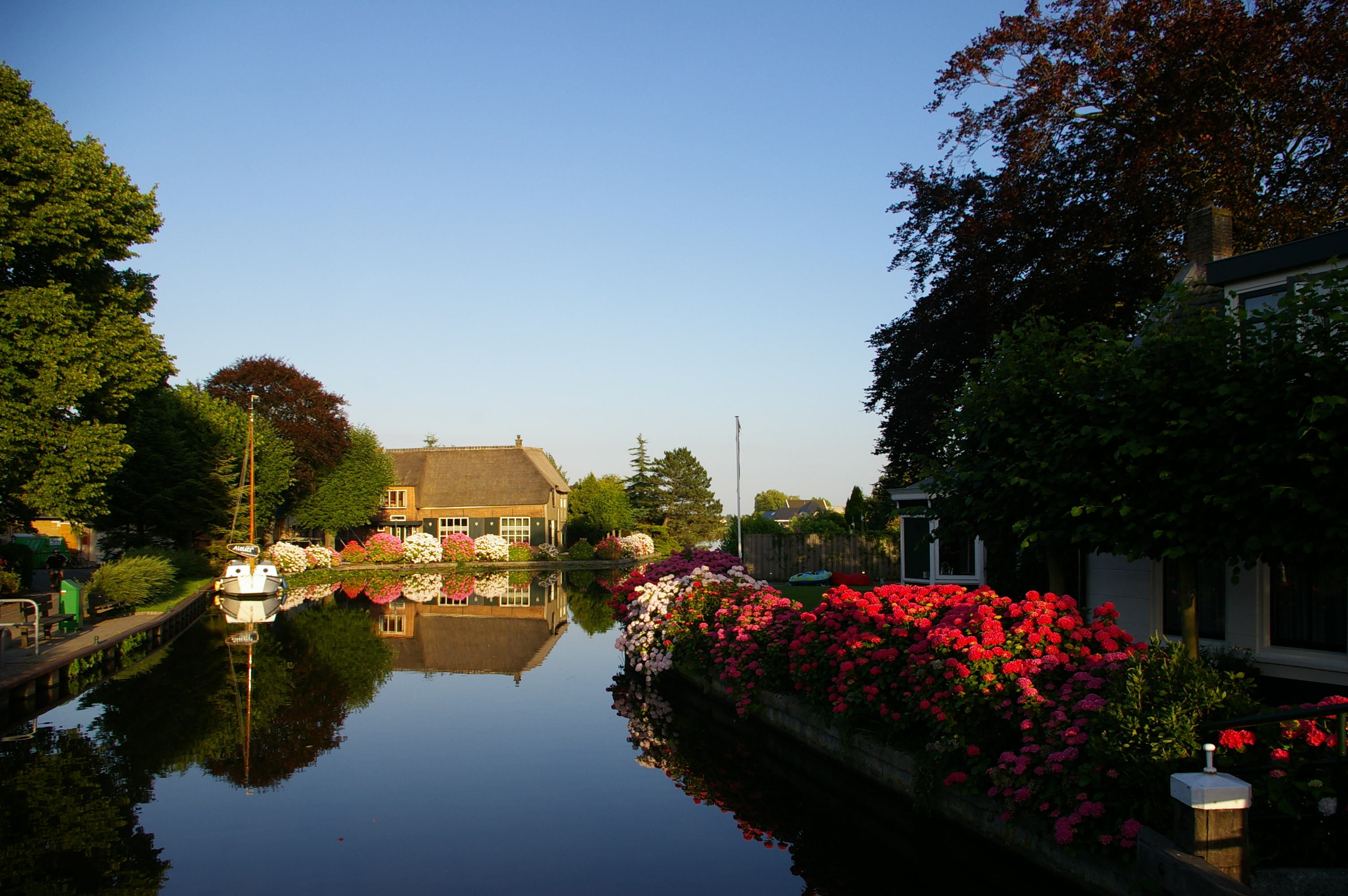 View of Bilderdam, a small village south of Aalsmeer, the Netherlands.